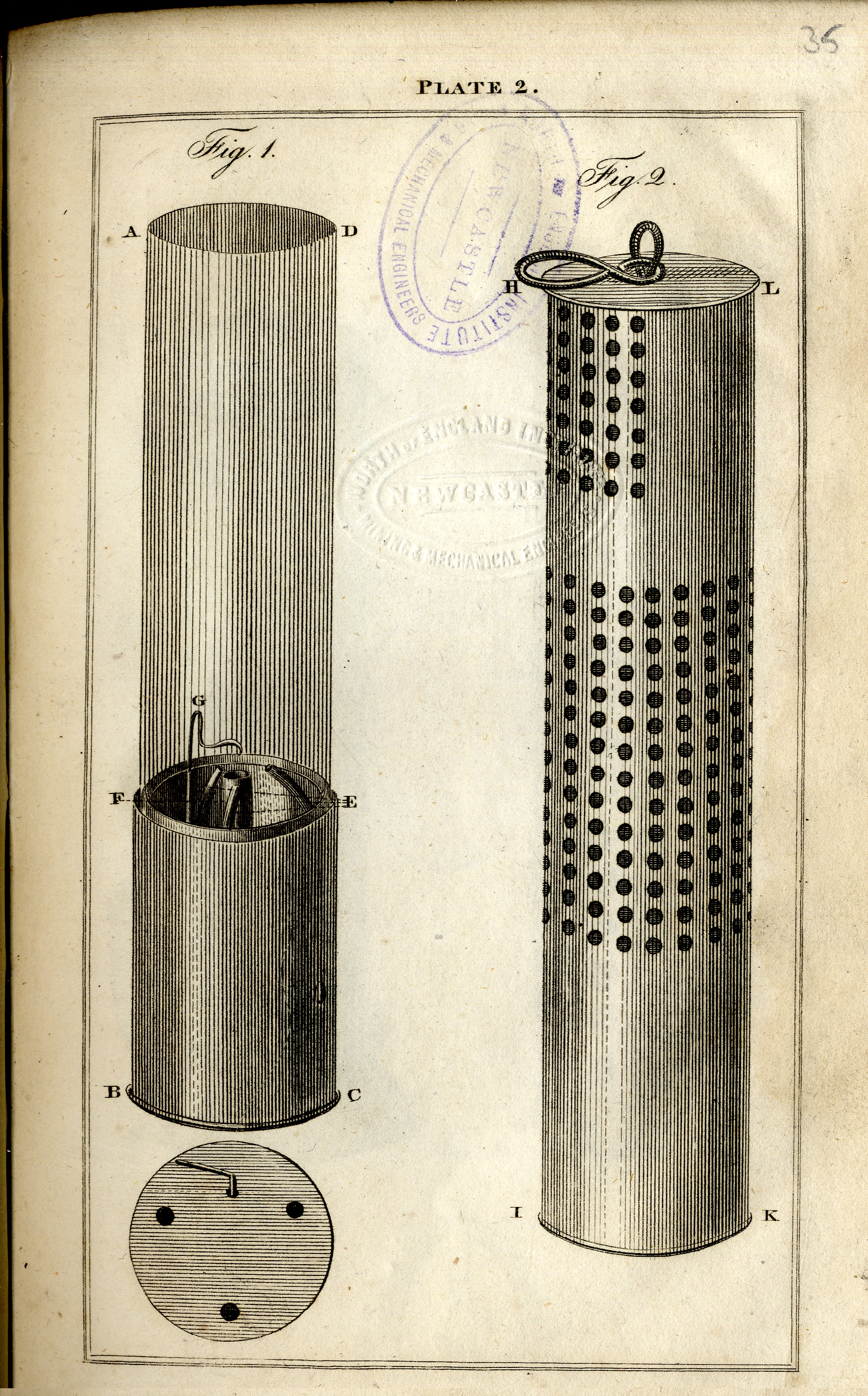 Plate 2 figures 1/2 from page 35 of Report Upon the Claims of Mr. George Stephenson, Relative to the Invention of His Safety Lamp, by the Committee Appointed at a Meeting Holden in Newcastle November 1st 1817, original tract held in the North of England Institute of Mining and Mechanical Engineers and uploaded with the authority of their librarian Jennifer Hillyard.